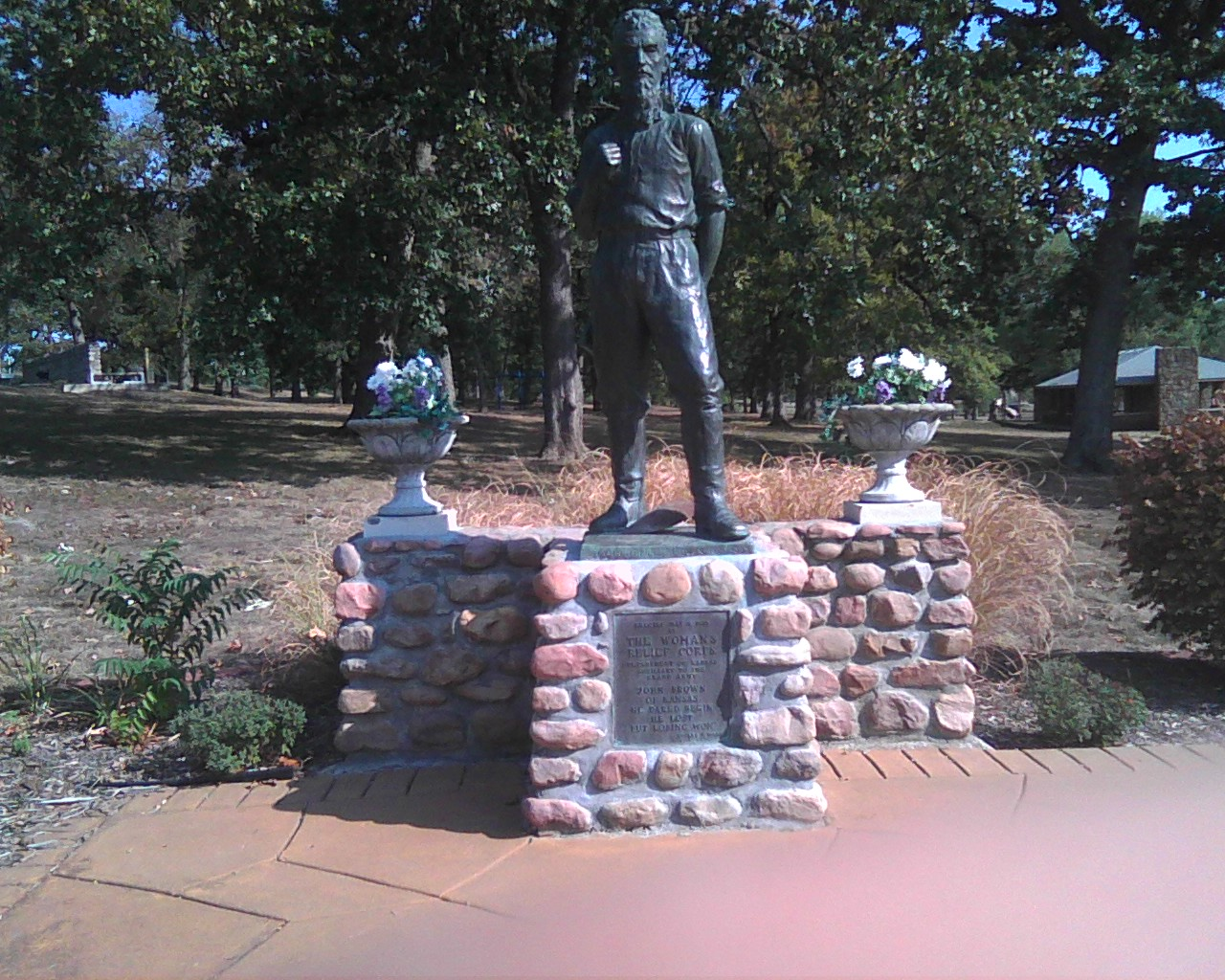 John Brown Museum